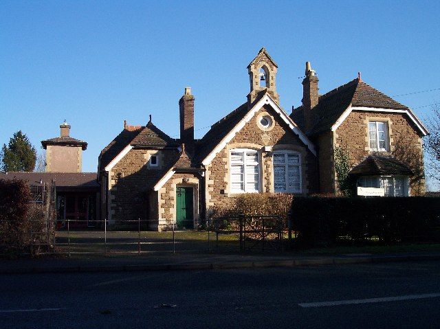 Bredenbury Primary School. Located at the corner of the A44 Bromyard to Leominster road and the road to Rowden Abbey. Viewed from the west.